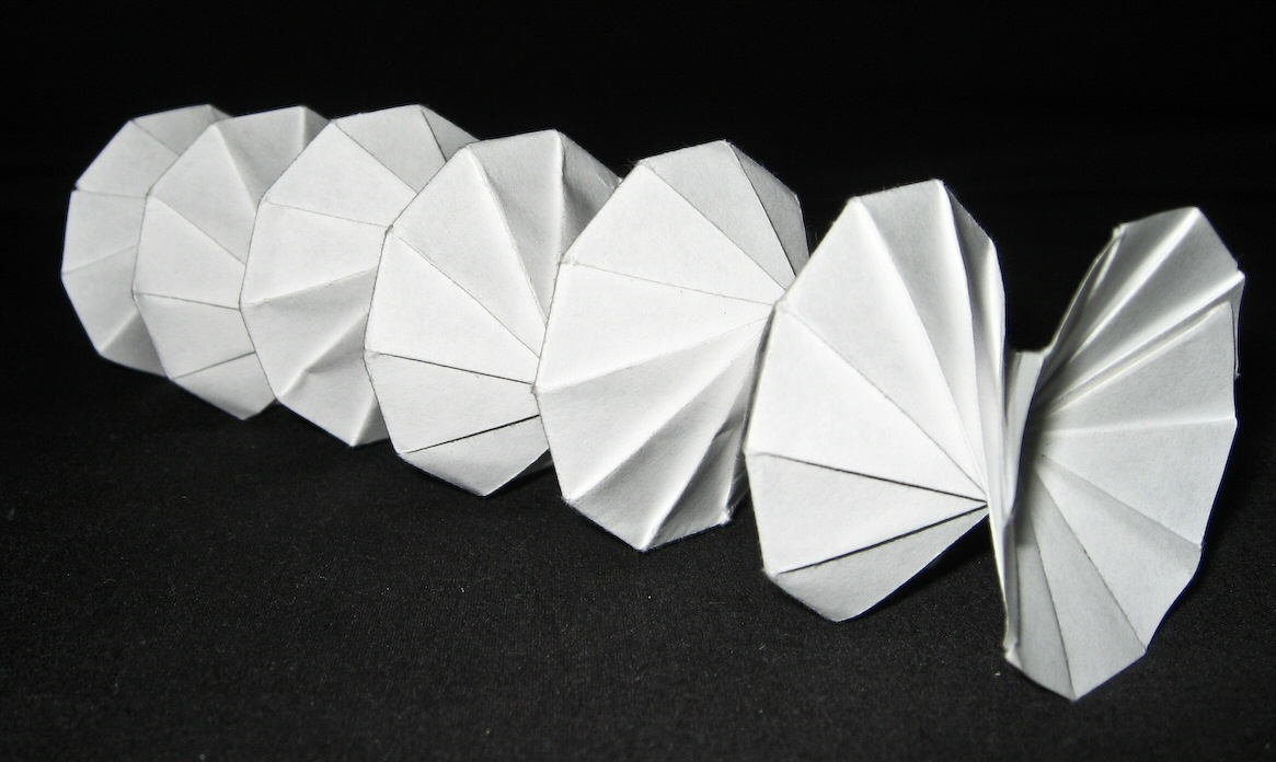 Information/Description = Origami spring Source = Made by me, invented by Jeff Beynon Date = 9th February 2006 Author = Jason Ruck